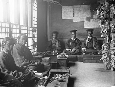 The three magistrates of Shö with clerks on left in their Court Room. Police Court below Potala. The three magistrates, in red overcoats and yellow Tam O'Shanter caps, with their clerks. Court records fastened to walls and pillars. Bell's Diary entry for 26th July 1921: "I visited the Sho Le-Kung today (photo quarter plate). The courtroom resembled in the main that of the Mi-pon. There are three magistrates, known as the Sho-pa. Usually two are trung-khar and one a tse-trung, but at [?] all three are trung-khor. This courtroom, the one which I photographed, is up stairs. Down below in another place close to, is a verandah in which those accused of the more heinous offences are tried. Here are kept the whips and finger-crushing implements of the same kind as those used by the Mi-pons. Nearby is the prison with two separate rooms, both of which one sees from above. One, for those convicted of lighter offences, was photoed by me some months ago. it gets plenty of light and air from above. The other for heinous offenders, is dark, but gets much more light and air than the prison administered by the Mi-pons. Looking down through the grating of the Sho prison for heinous offenders, I could see though dimly, the prisoners inside" [Vol XI, pp. 58-59]